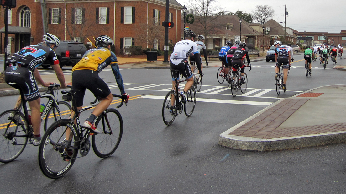 Cyclist in the weekly Tucker Ride. Main Street Tucker, Georgia United States.